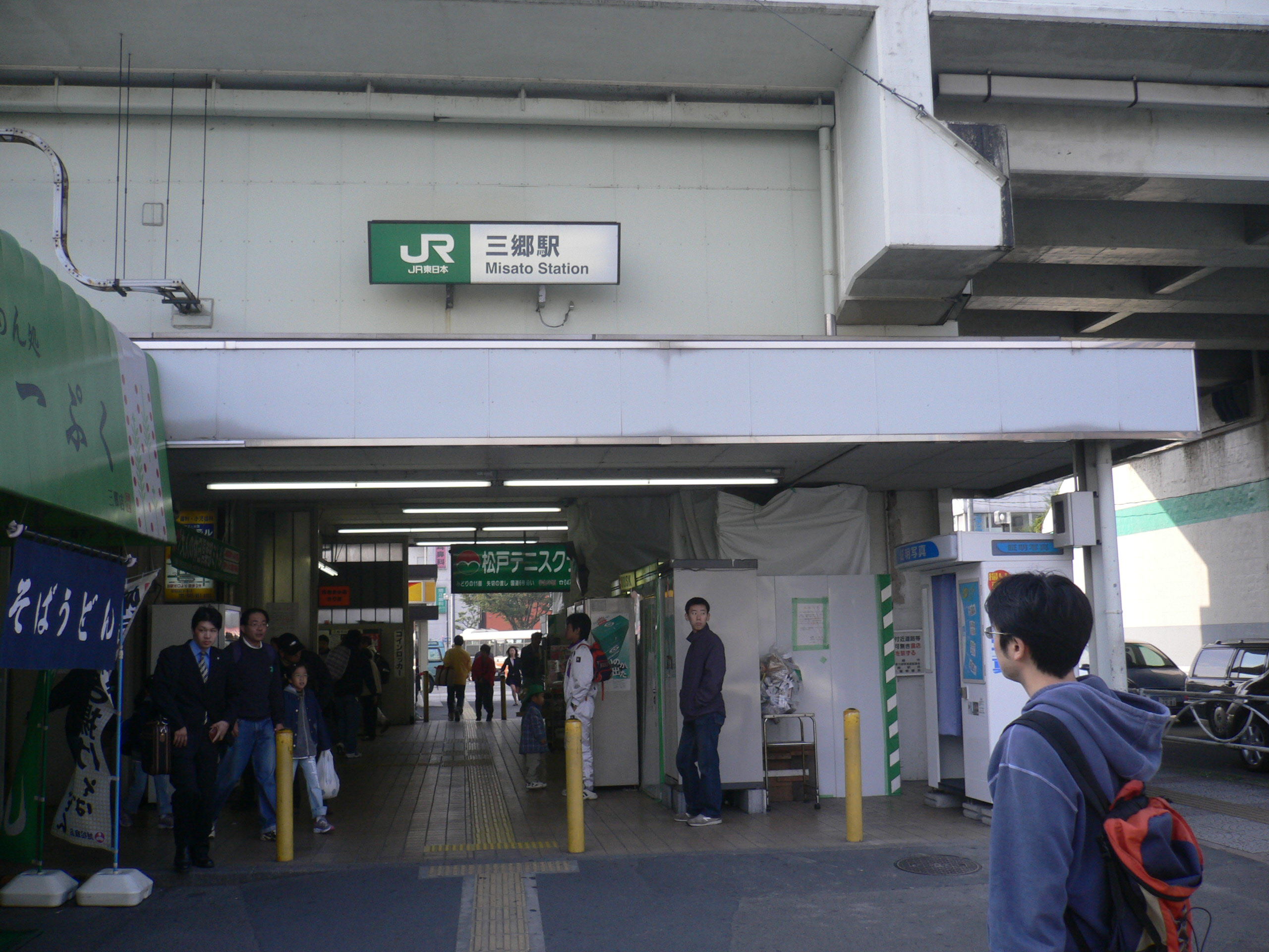 The South entrance of Misato Station on the Musashino Line in Saitama Prefecture, Japan